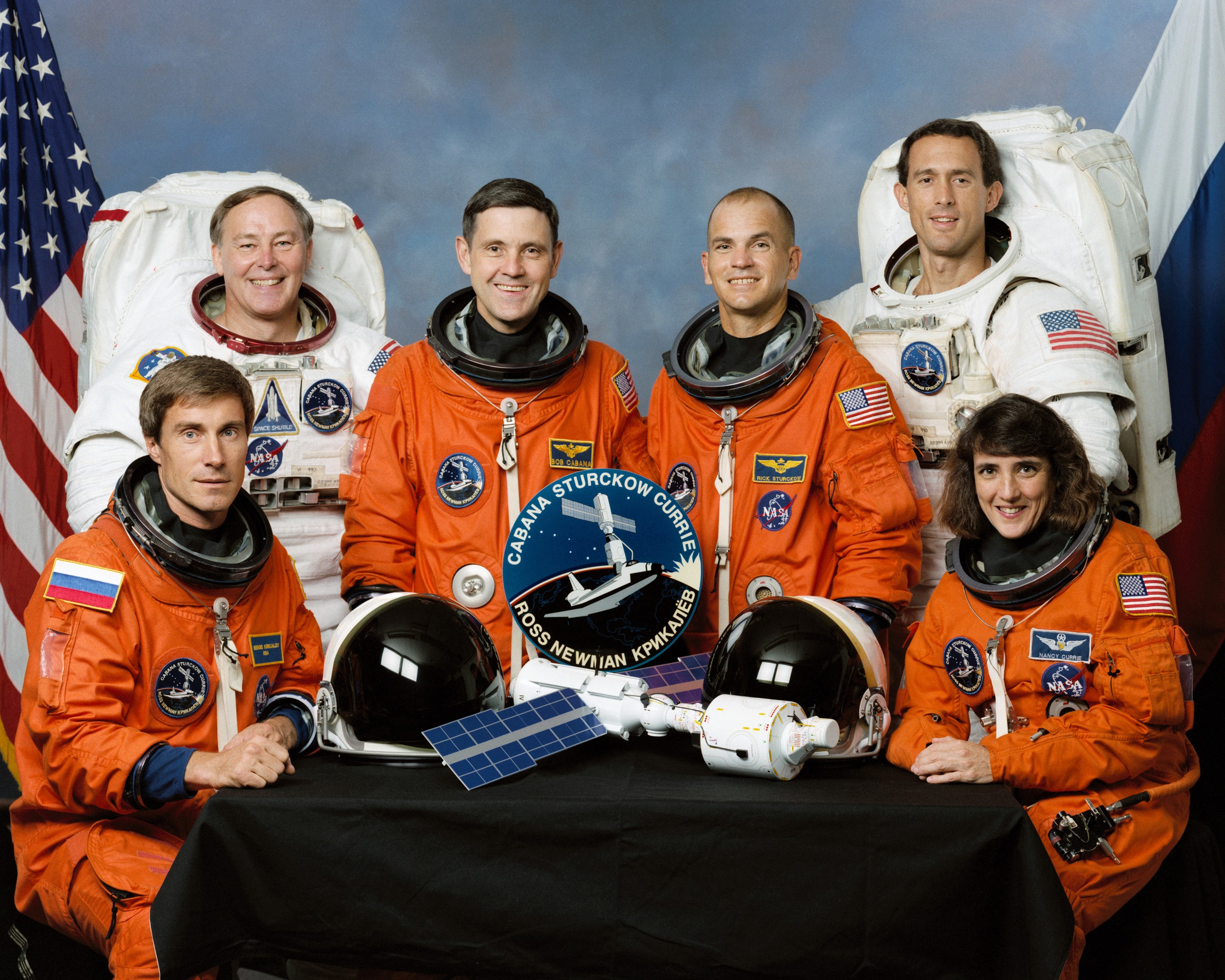 STS088(S)002 (November 1998): Five NASA astronauts and a Russian cosmonaut assigned to the STS-88 mission, scheduled for an early December launch, take time out from their busy training agenda for a crew portrait. Seated in front are Sergei K. Krikalev, a mission specialist representing the Russian Space Agency (RSA), and astronaut Nancy J. Currie, mission specialist. In the rear, from the left, are astronauts Jerry L. Ross, mission specialist; Robert D. Cabana, mission commander; Frederick W. Sturckow, pilot; and James H. Newman, mission specialist.